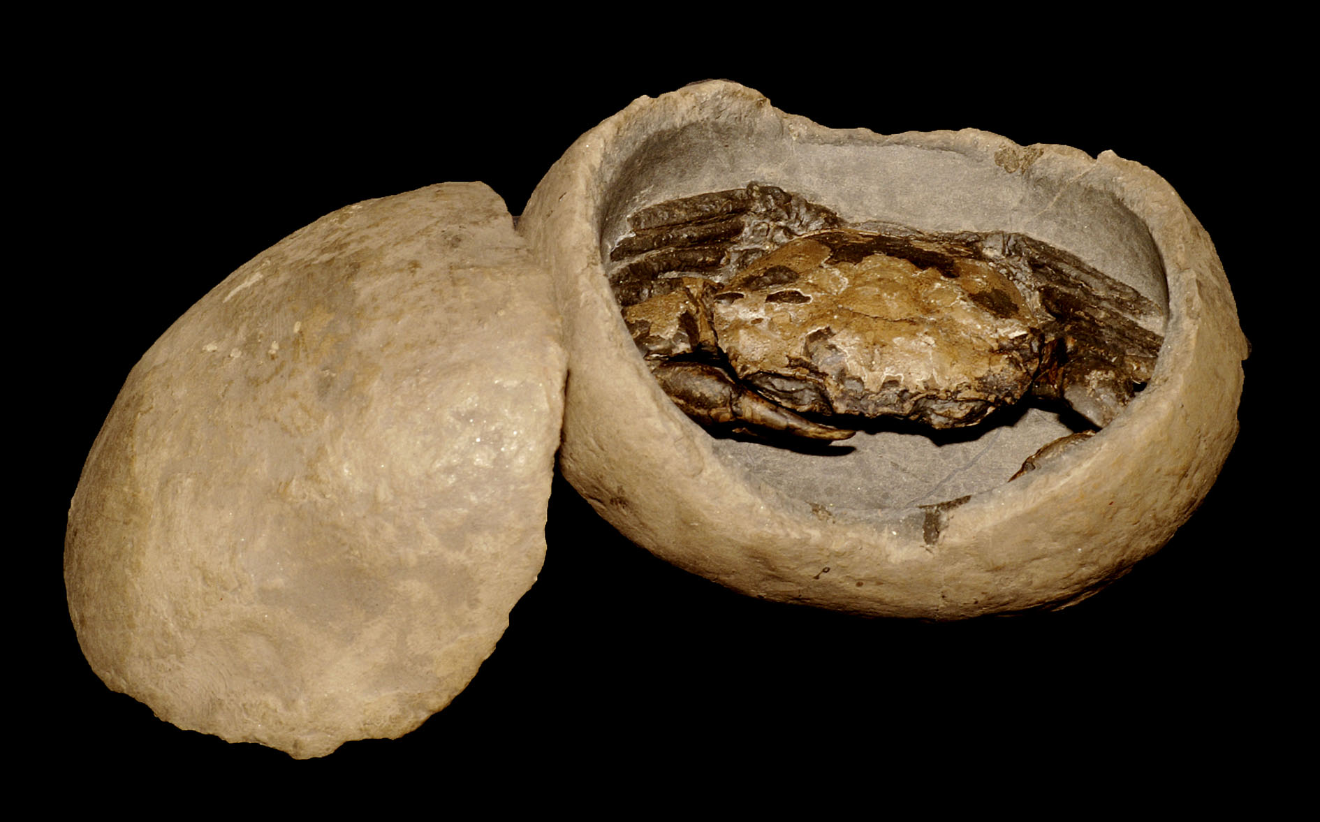 Fossil crab (Coeloma sp.)from Lyby in Danmark